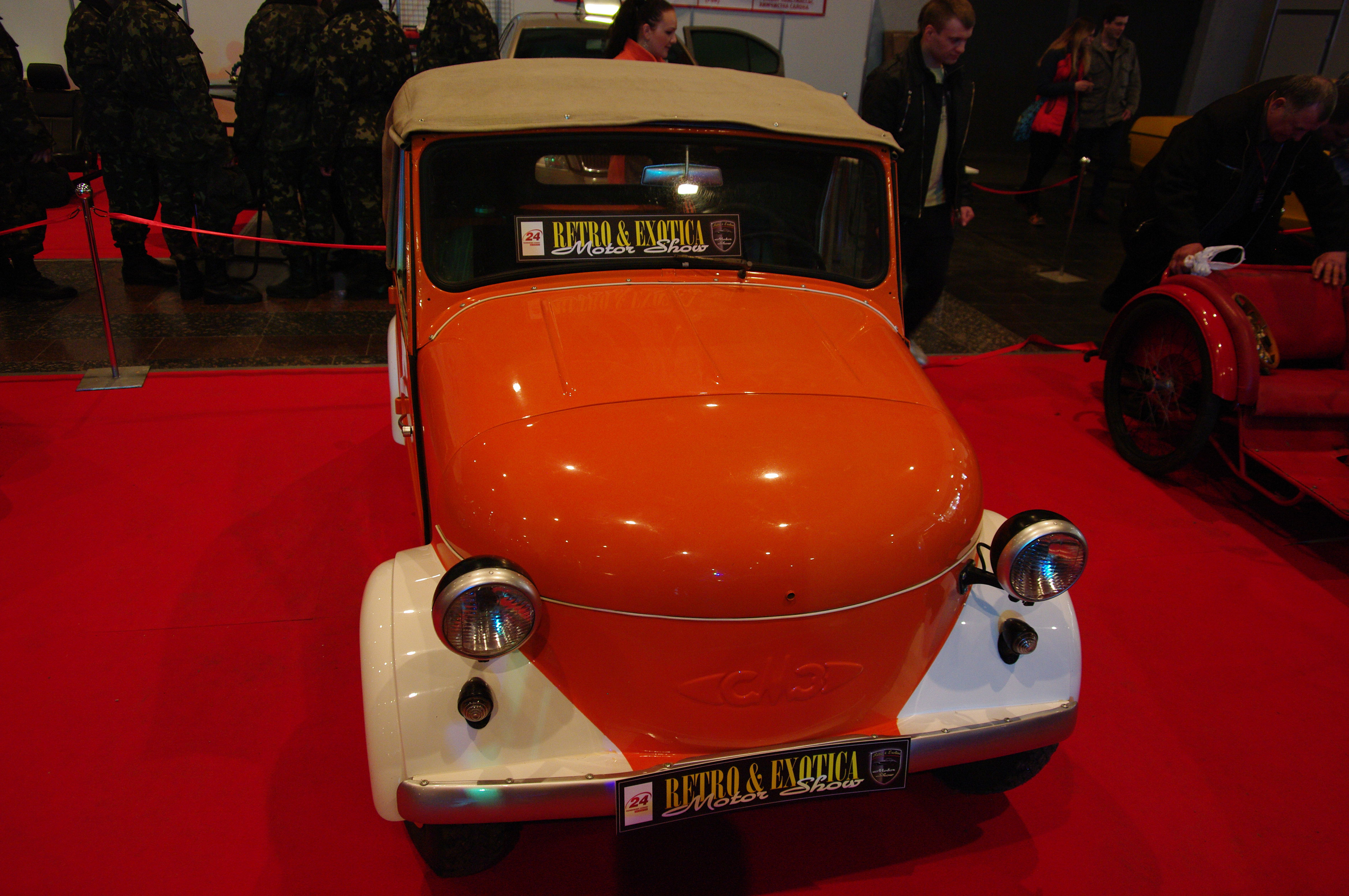 Kyiv Retro&Exotica 2013 exhibition